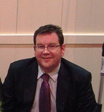 David Cunliffe, Charles Chauve (politician), Annette King and Grant Robertson at a post-budget public meeting in April 2006.